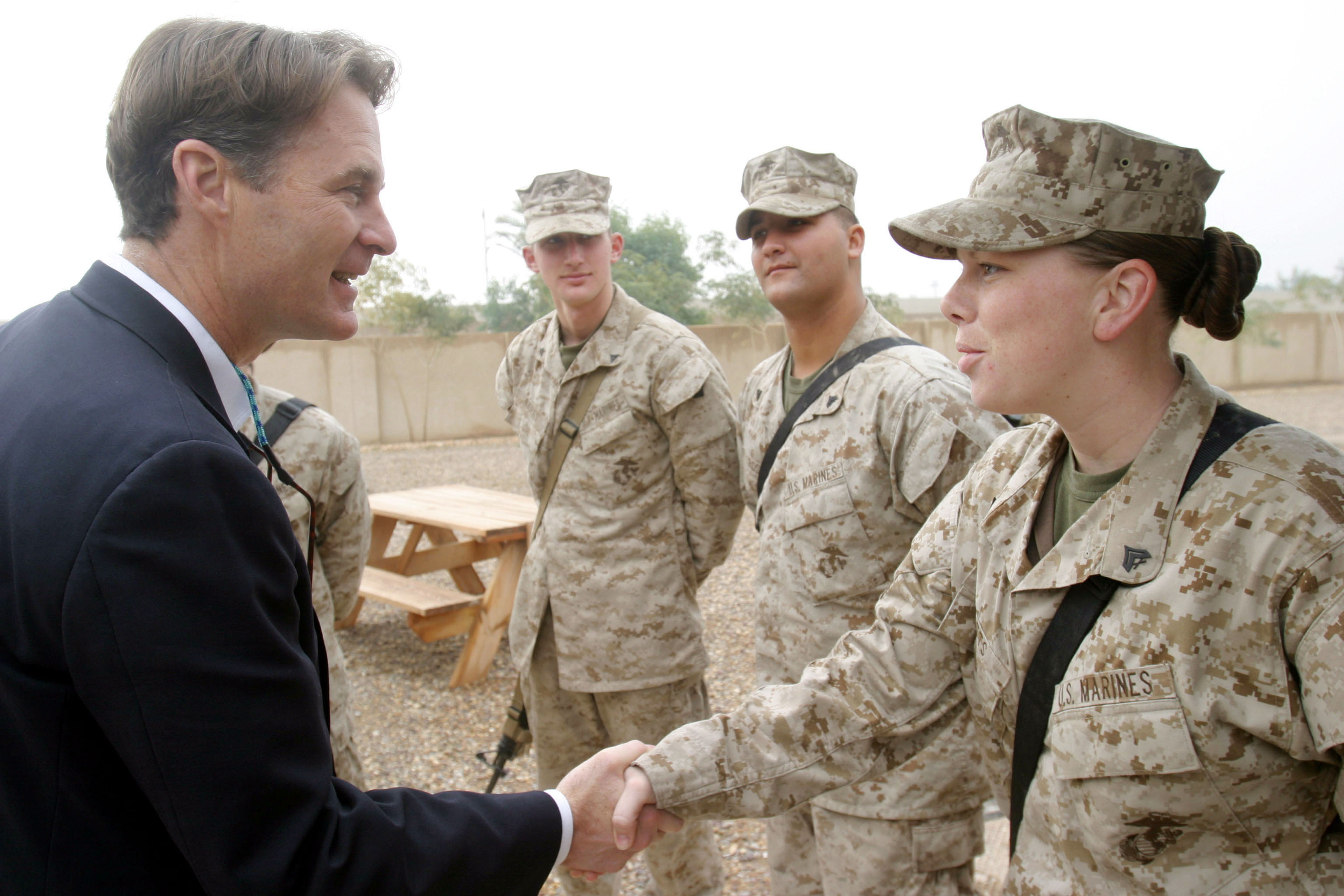 Fallujah, Iraq (Jan. 8, 2006) – Indiana Senator Evan Bayh, shakes the hand of Corporal Tiffani Watts, a Marine and native of Indiana, assigned to II Marine Expeditionary Force. II Marine Expeditionary Force is deployed in support of the global war on terrorism to conduct counter-insurgency operations to isolate and neutralize anti-Iraqi forces; support the continued development of Iraqi Security Force; support Iraqi reconstruction and democratic elections; and to facilitate the creation of a secure environment that enables Iraqi self-reliance and self-governance. U.S. Marine Corps photo by Lance Cpl. Michael J. O'Brien (RELEASED)